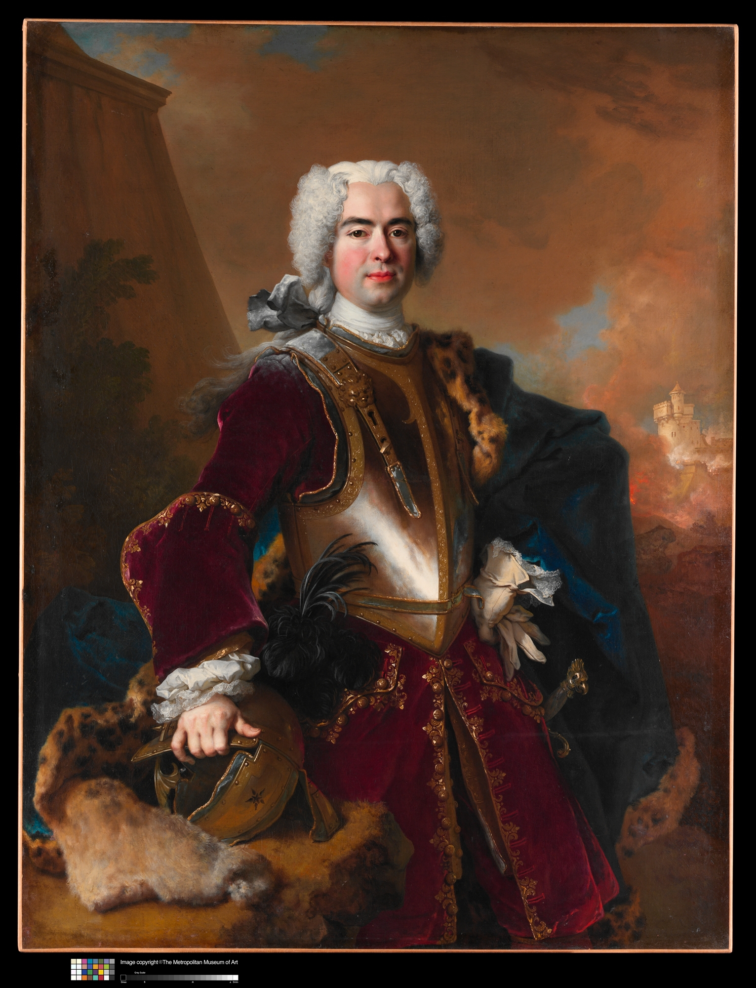 André François Alloys de Theys d'Herculais (1692–1779) Nicolas de Largillierre (French, Paris 1656–1746 Paris) Date: 1727 Medium: Oil on canvas Dimensions: 54 1/4 x 41 1/2 in. (137.8 x 105.4 cm) Classification: Paintings Credit Line: Gift of Mr. and Mrs. Charles Wrightsman, 1973 Accession Number: 1973.311.4 This artwork is currently on display in Gallery 526 The sitter, from a bourgeois family in Grenoble, was a captain in the Clermont-Condé cavalry regiment; one of his campaigns in the north of Spain may be represented in the background. His formal military attire is earlier in date than the portrait. Largilliere may have owned the armor, since the breastplate appears in three other portraits by the artist of roughly the same date. This one exemplifies Largilliere's late, restrained style.